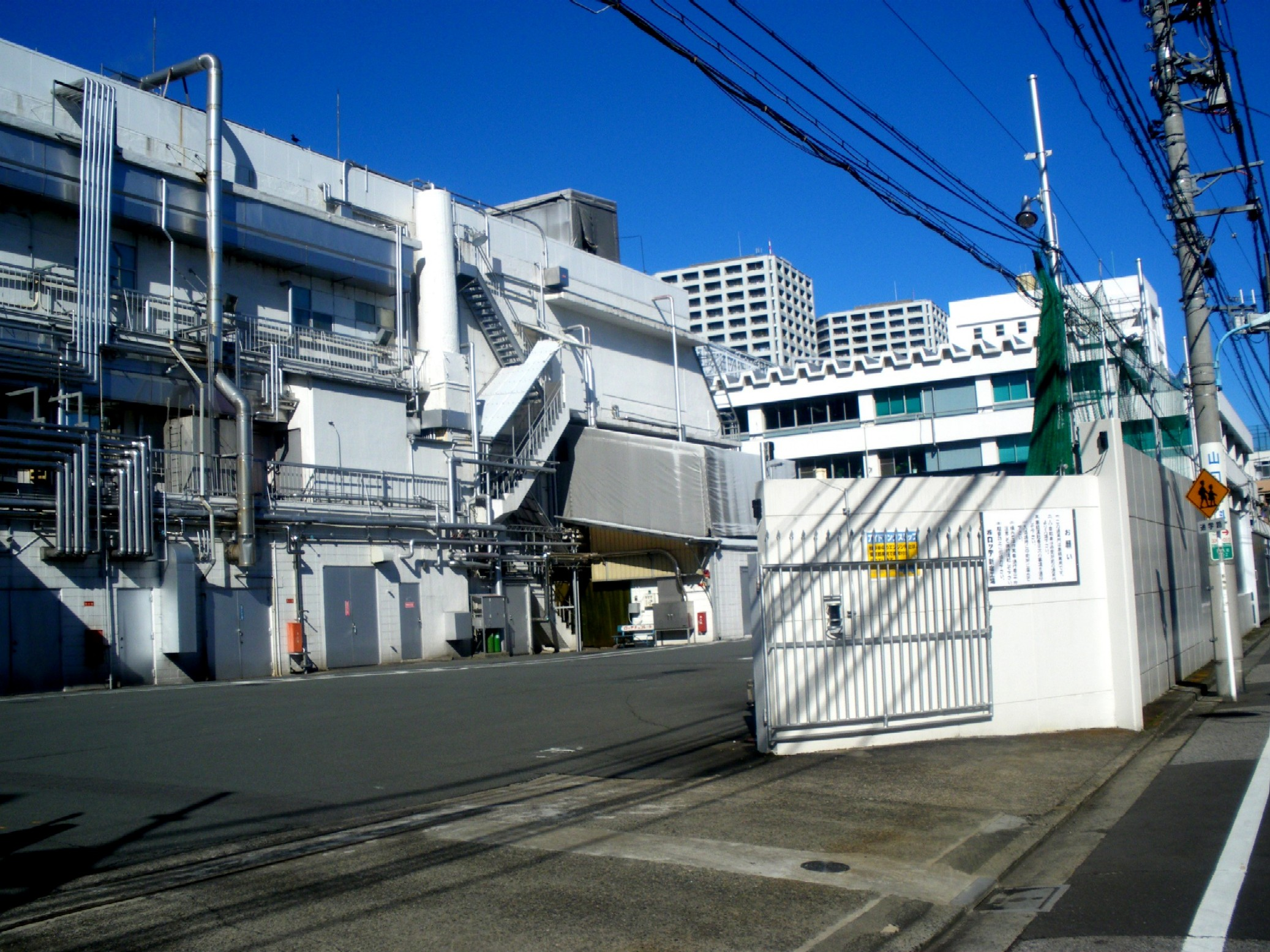 A photo of Lotte Shinjuku factory, Hyakunincho, Shinjuku-ku, Tokyo, Japan.